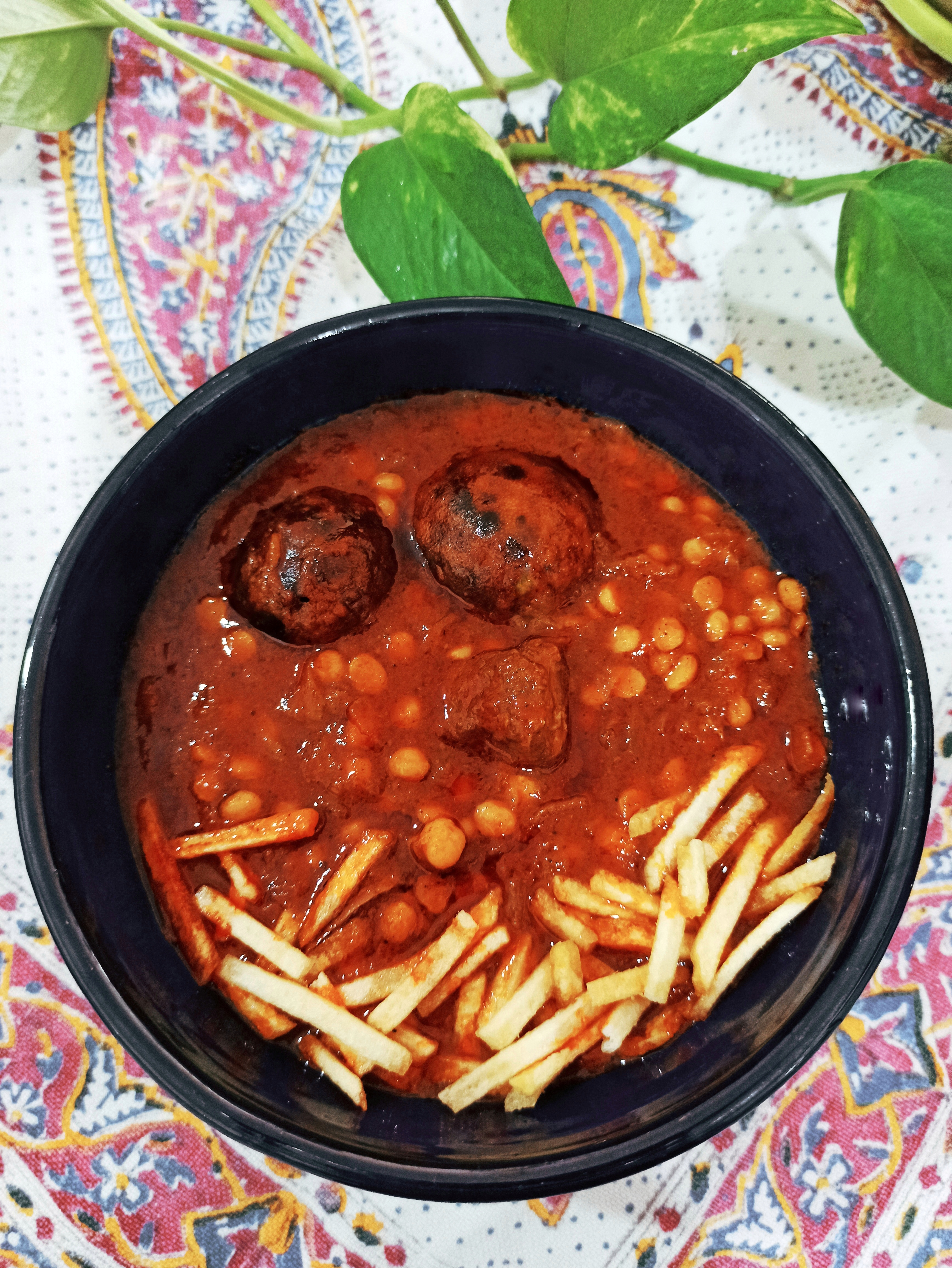 Gheimeh is an Iranian consisting of Split pea, Onion, Meat, Tomato Paste, Cooking oil, Dried lime and Condiment .